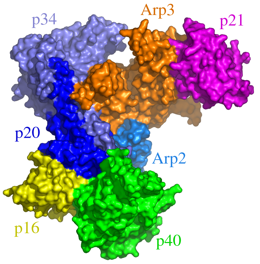 atomic structure of bovine Arp2/3 protein complex, PDB code 1K8K, surface representation, rendered with PyMol, color coding for subunits: Arp3, orange; Arp2, marine (subunits 1 & 2 not resolved and thus not shown); p40, green; p34, ice blue; p20, dark blue; p21, magenta; p16, yellow.